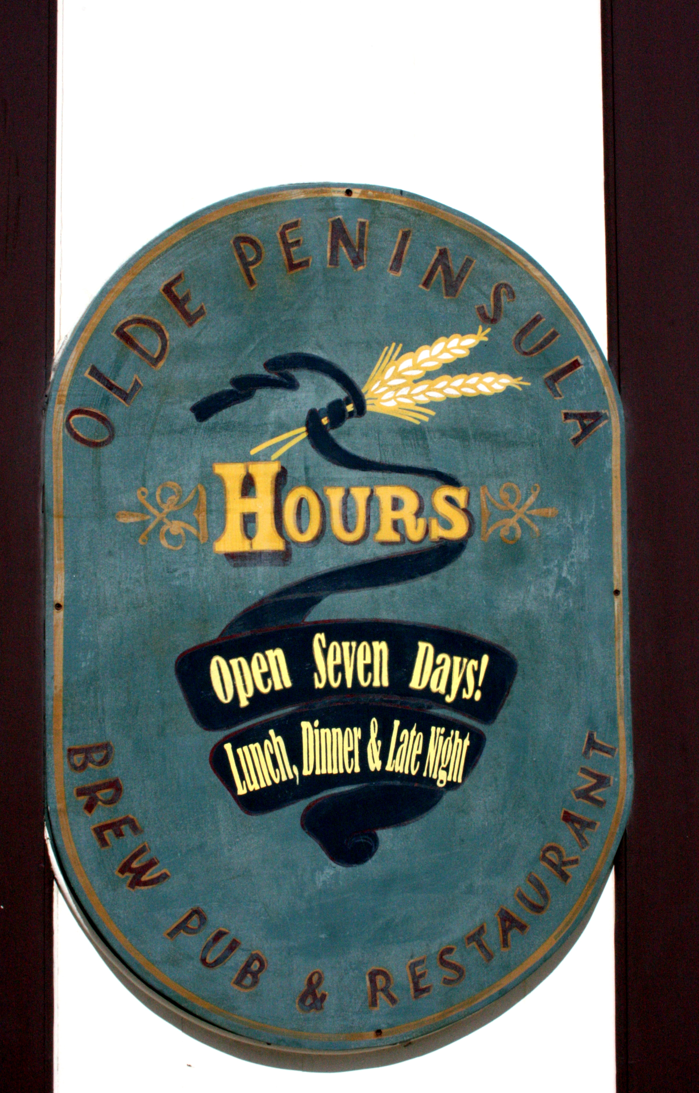 A pub in downtown Kalamazoo, MI. The Old Peninsula also features a brewery in which it is locally known for it's root beer.